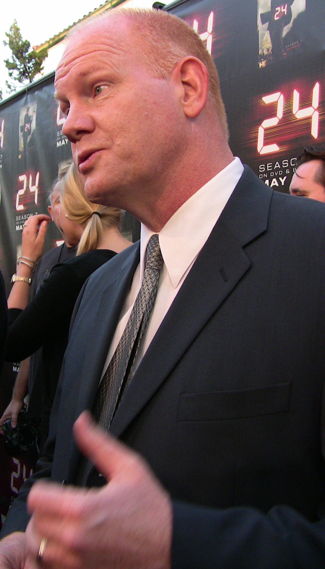 Actor Glenn Morshower at TV series 24's season 7 finale screening at Wadsworth Theatre, Los Angeles, California.